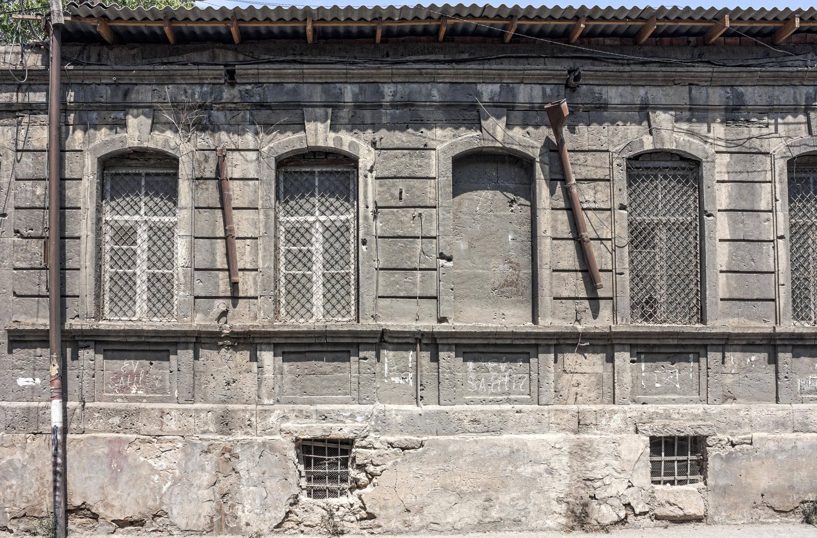 Home Ketskhoveli street in Baku